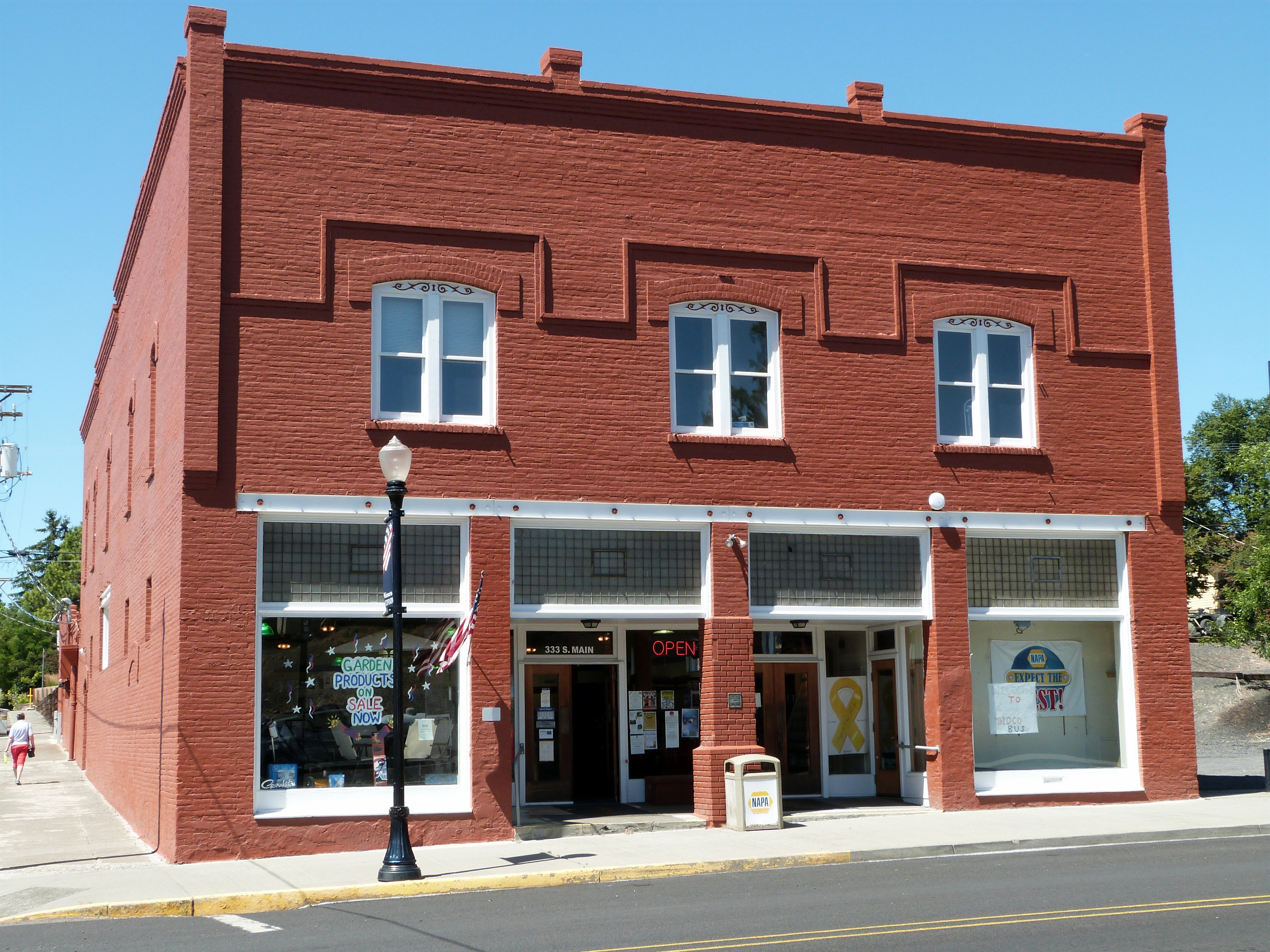 The historic S.B. Barker Building, located at 333 South Main Street in Condon, Oregon, United States, is listed on the US National Register of Historic Places. It is also identified as a contributing resource in the National Register-listed Condon Commercial Historic District.